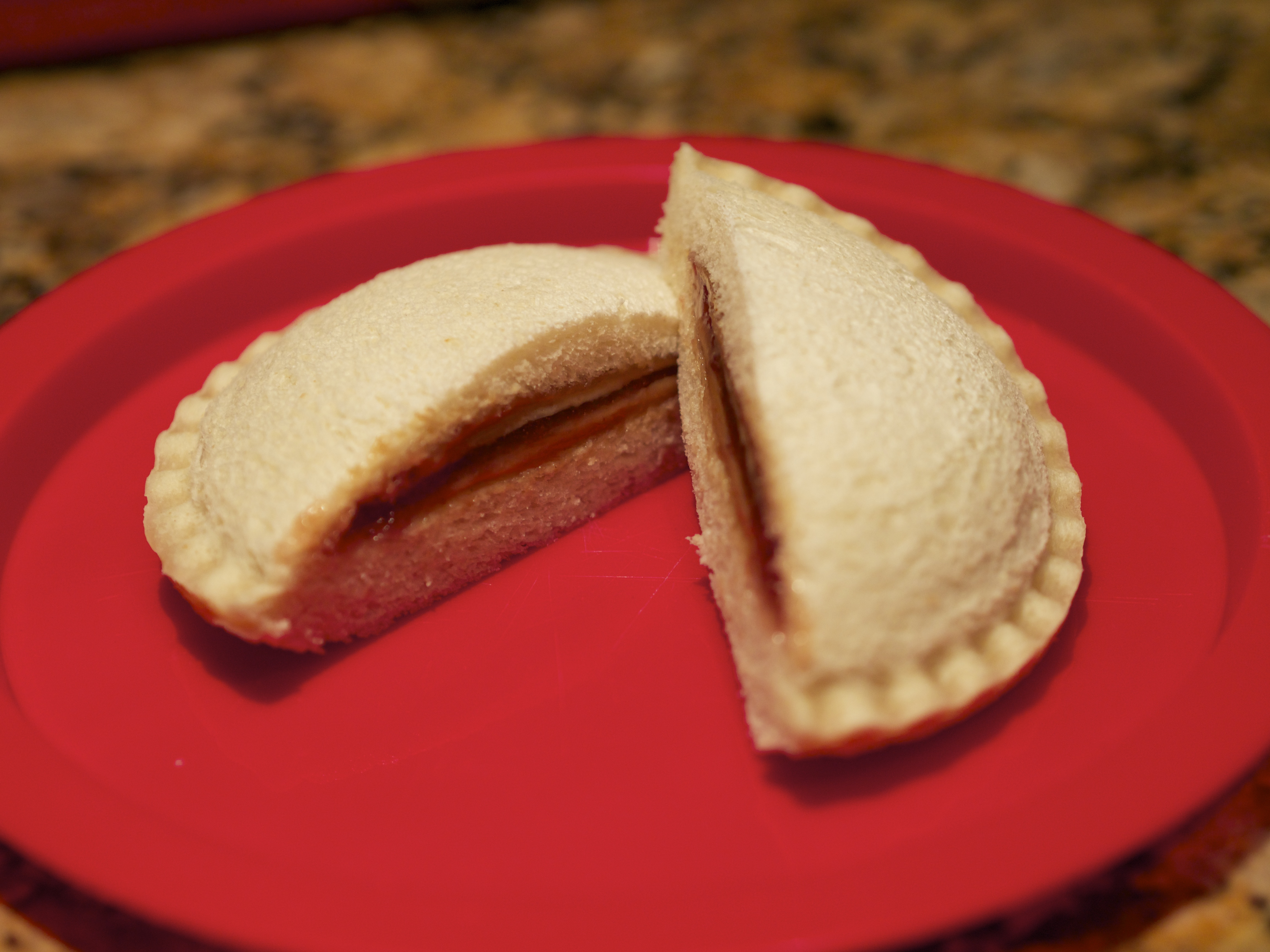 Smucker's Uncrustable Cut - Day 26 of 100 Project